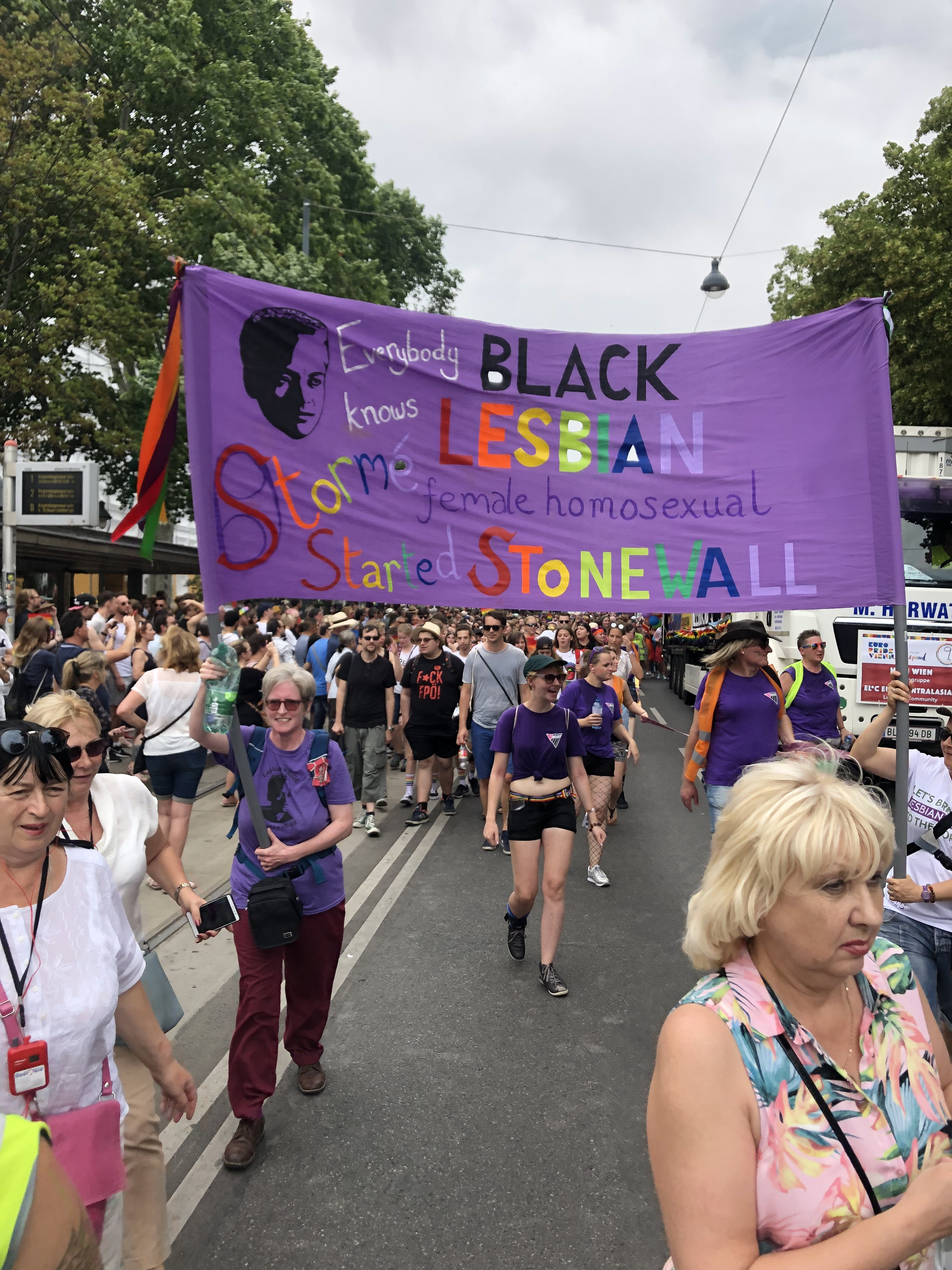 A banner that says "Everybody knows black lesbian female homosexual Stormé started Stonewall", a reference to Stormé DeLarverie, a butch lesbian whose scuffle with police was the spark that ignited the Stonewall riots, spurring the crowd to action.Location: Austria, Vienna Event type: Europride Parade Date or year: 15/06/19